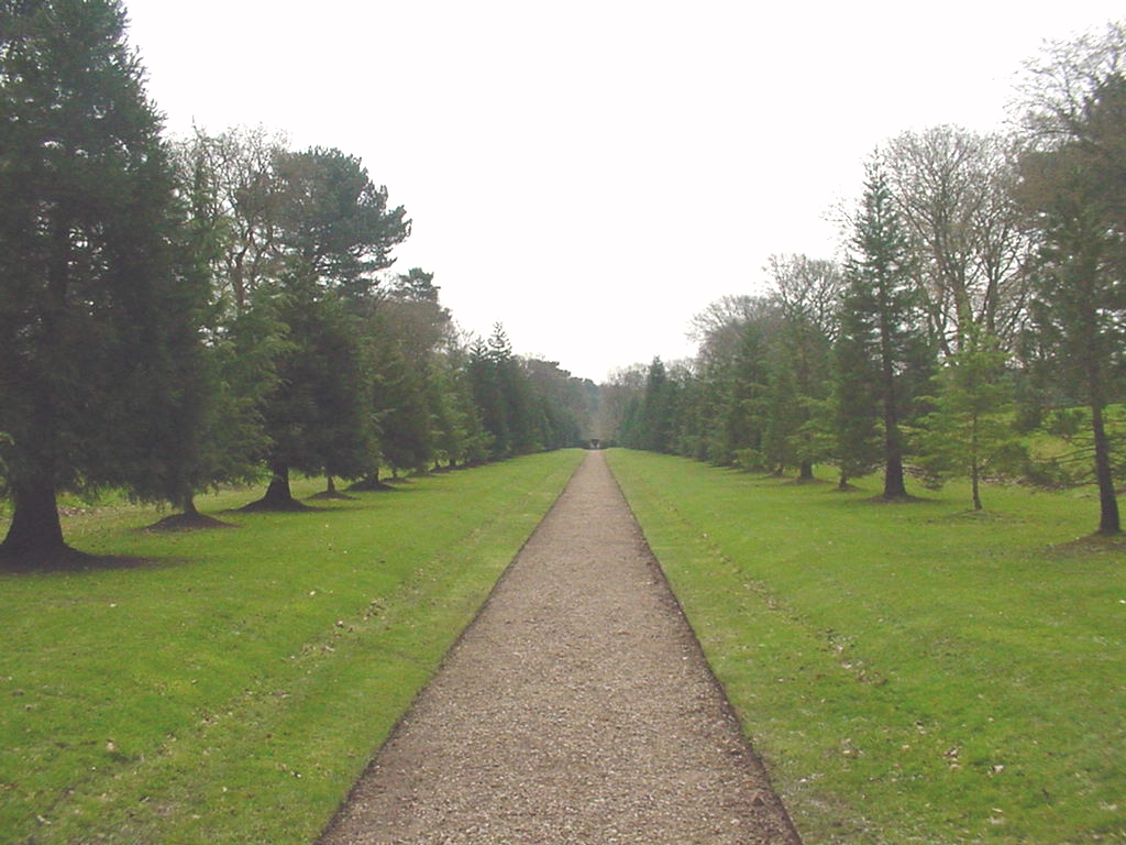 I took this photo